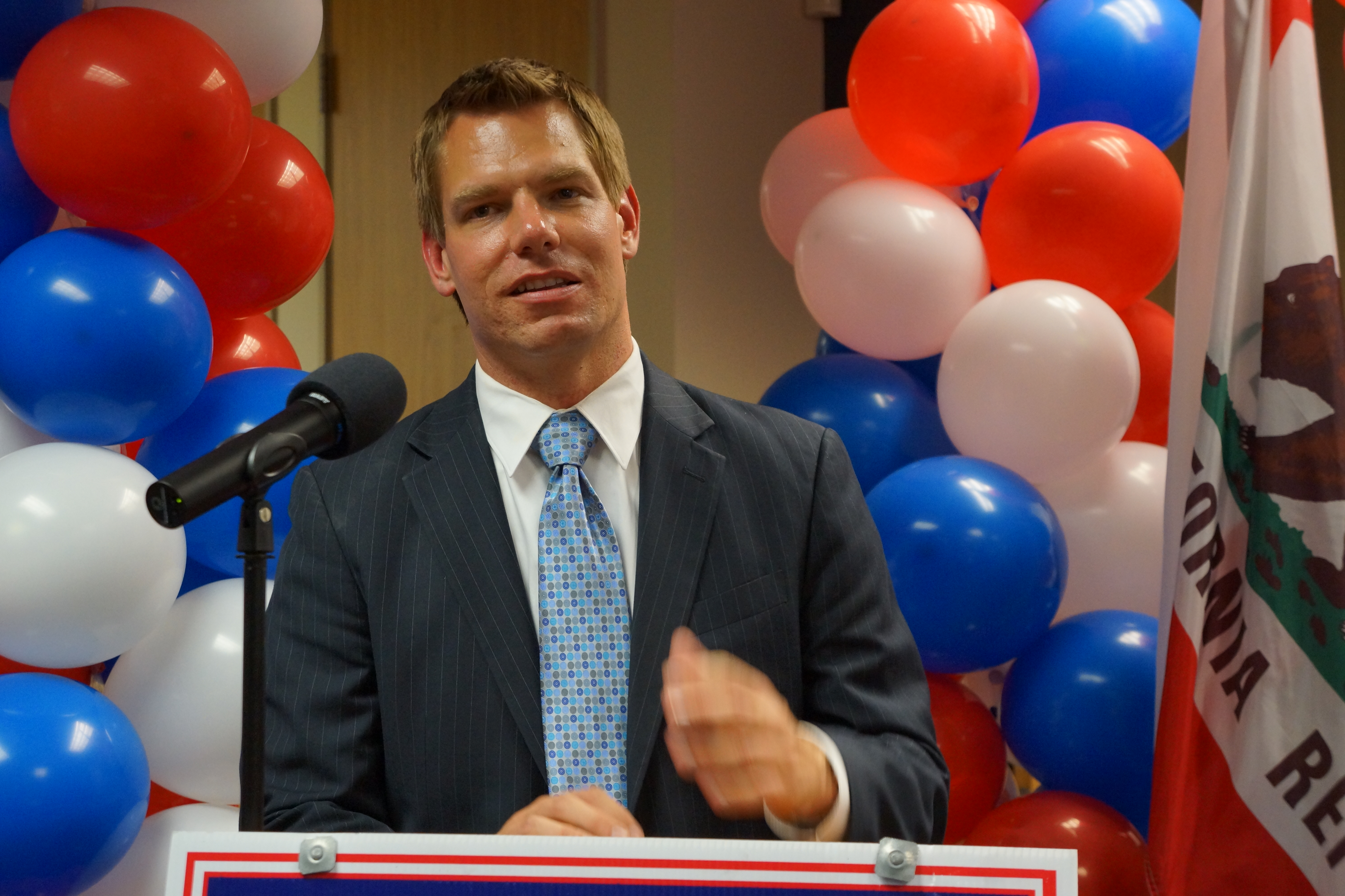 Dublin High School Class of 1999 graduate speaks to supporters after being elected to the 15th Congressional District, defeating 40-year incumbent Congressman Pete Stark.